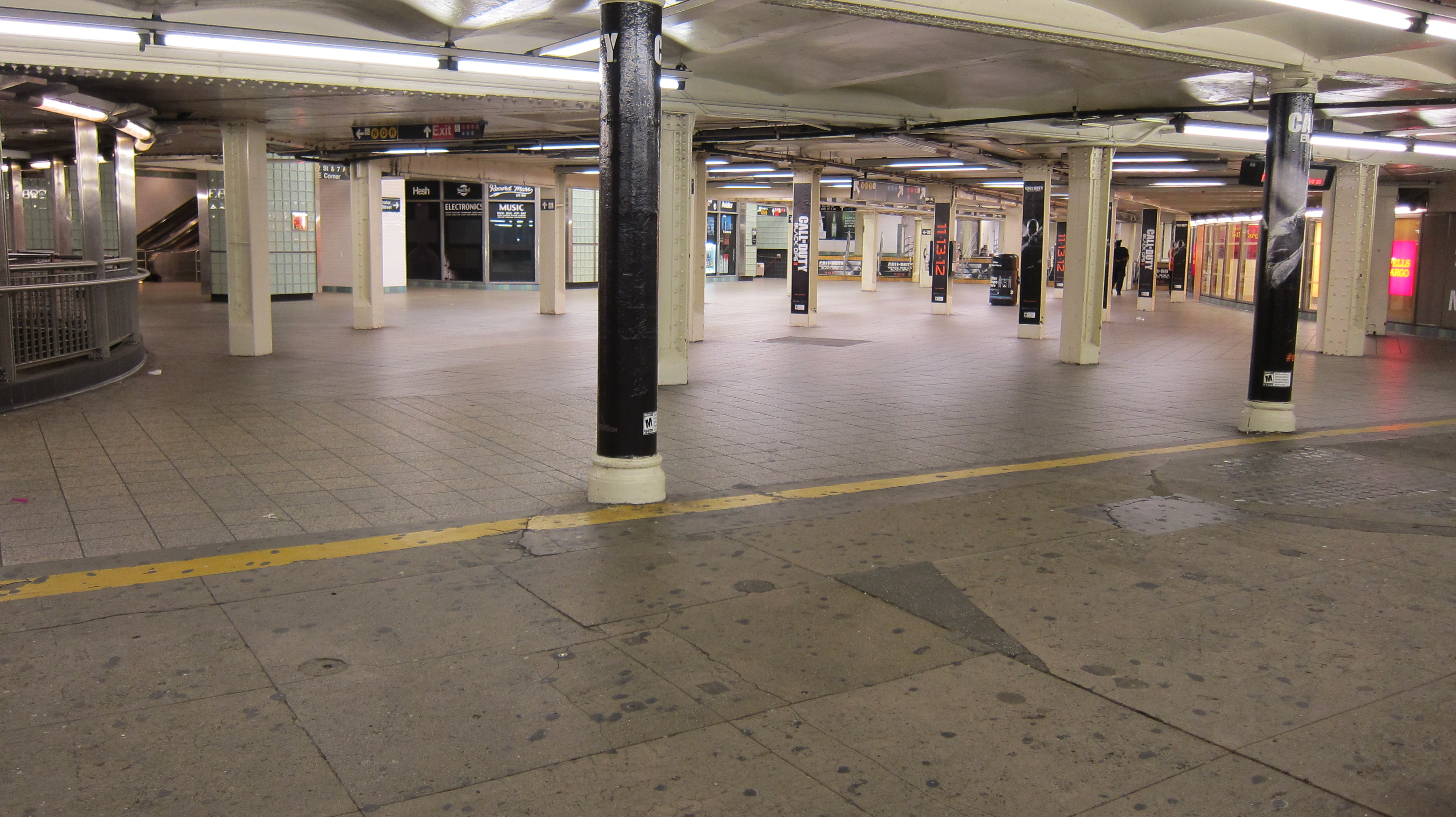 In advance of hurricane Sandy, the New York City Subway system suspended service at 7 p.m. (19:00). Times Square station, which is normally the busiest in the system, is empty.